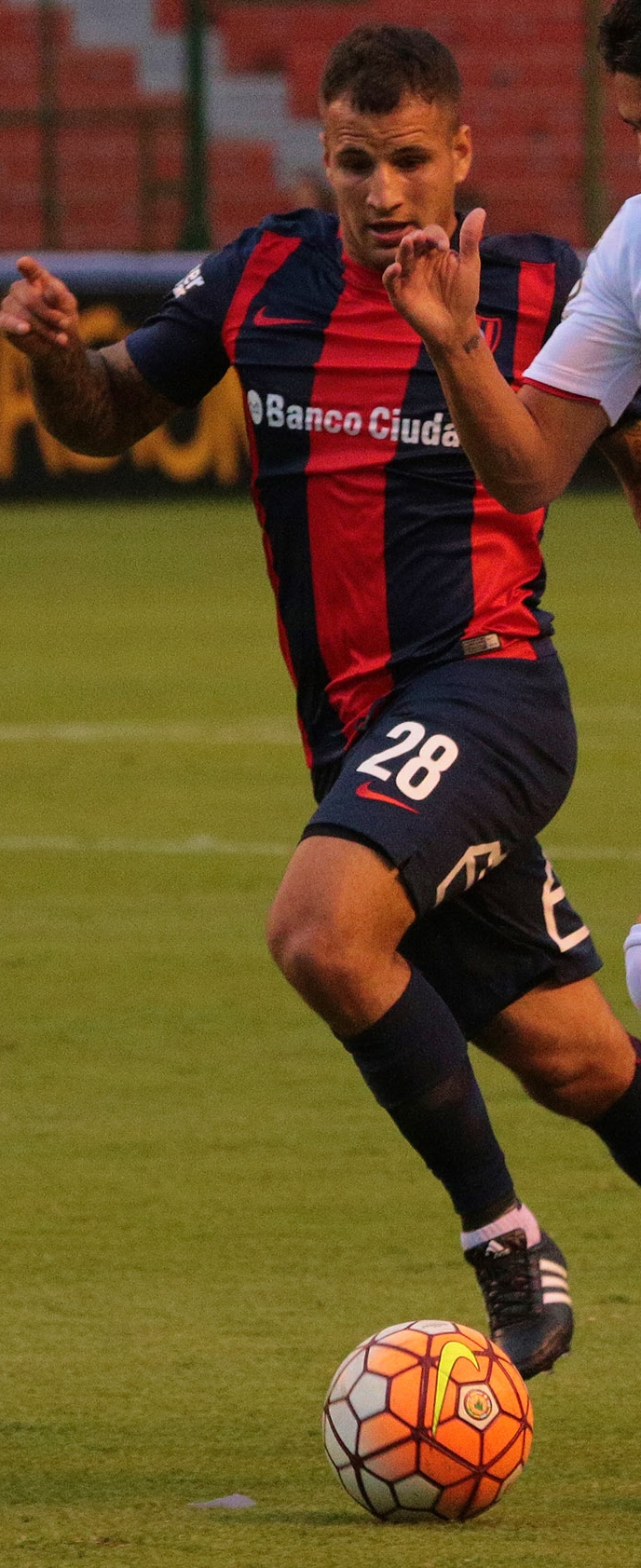 Franco Mussis